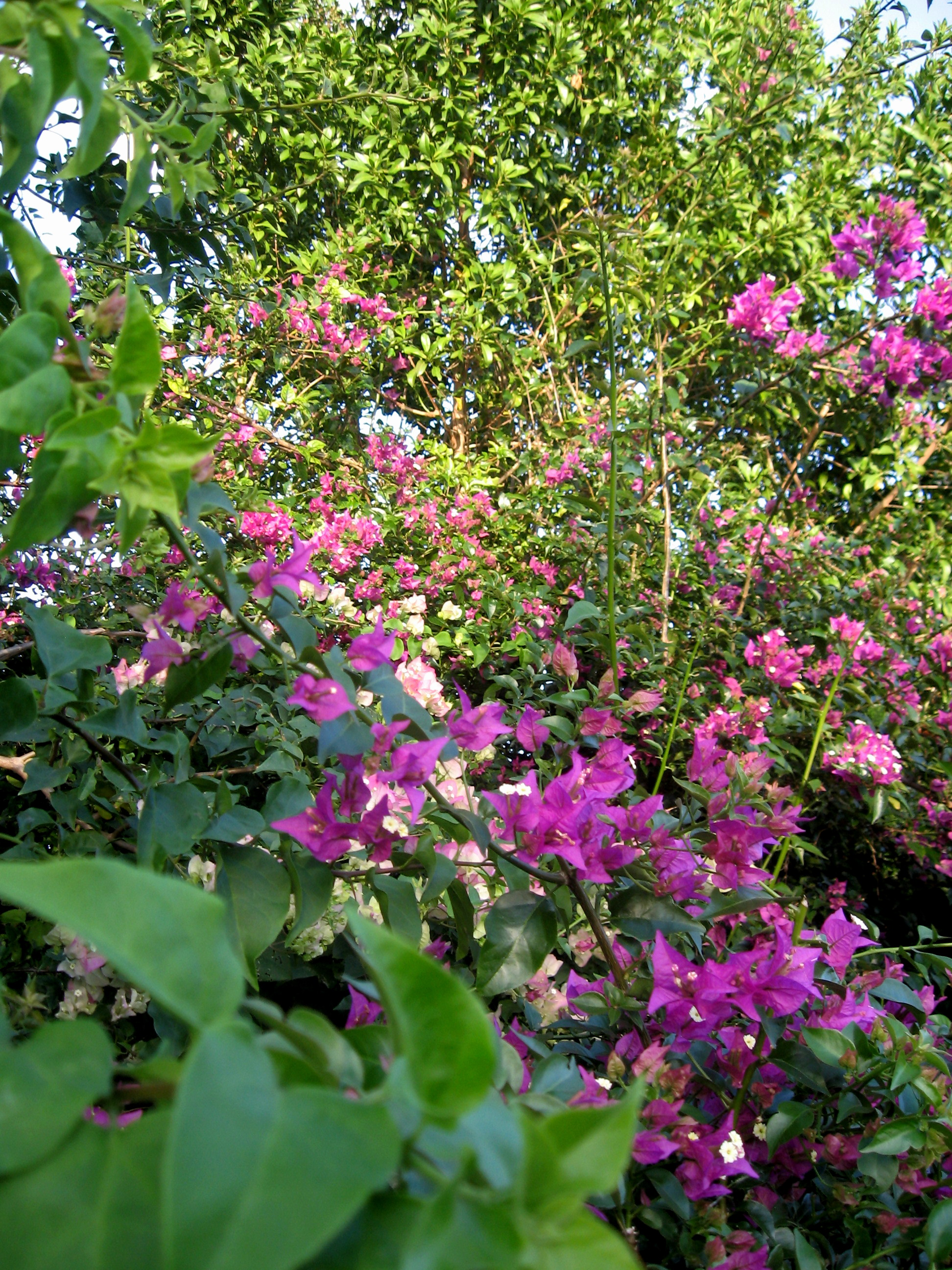 Flowers and hedges line Weston